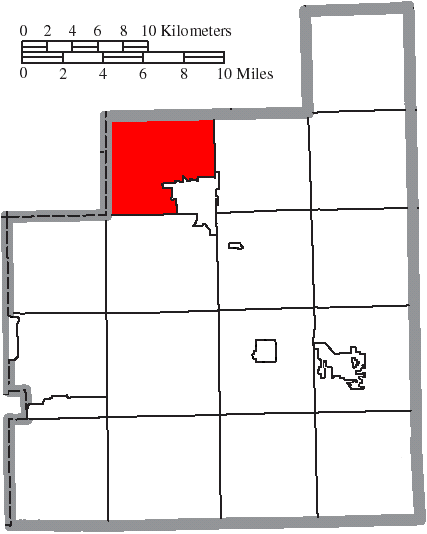 Map of the municipal and township boundaries of Geauga County, Ohio, United States, as of the 2000 census, with the location of Chardon Township highlighted. Township borders are shown only in unincorporated areas in order to differentiate incorporated and unincorporated areas more clearly.